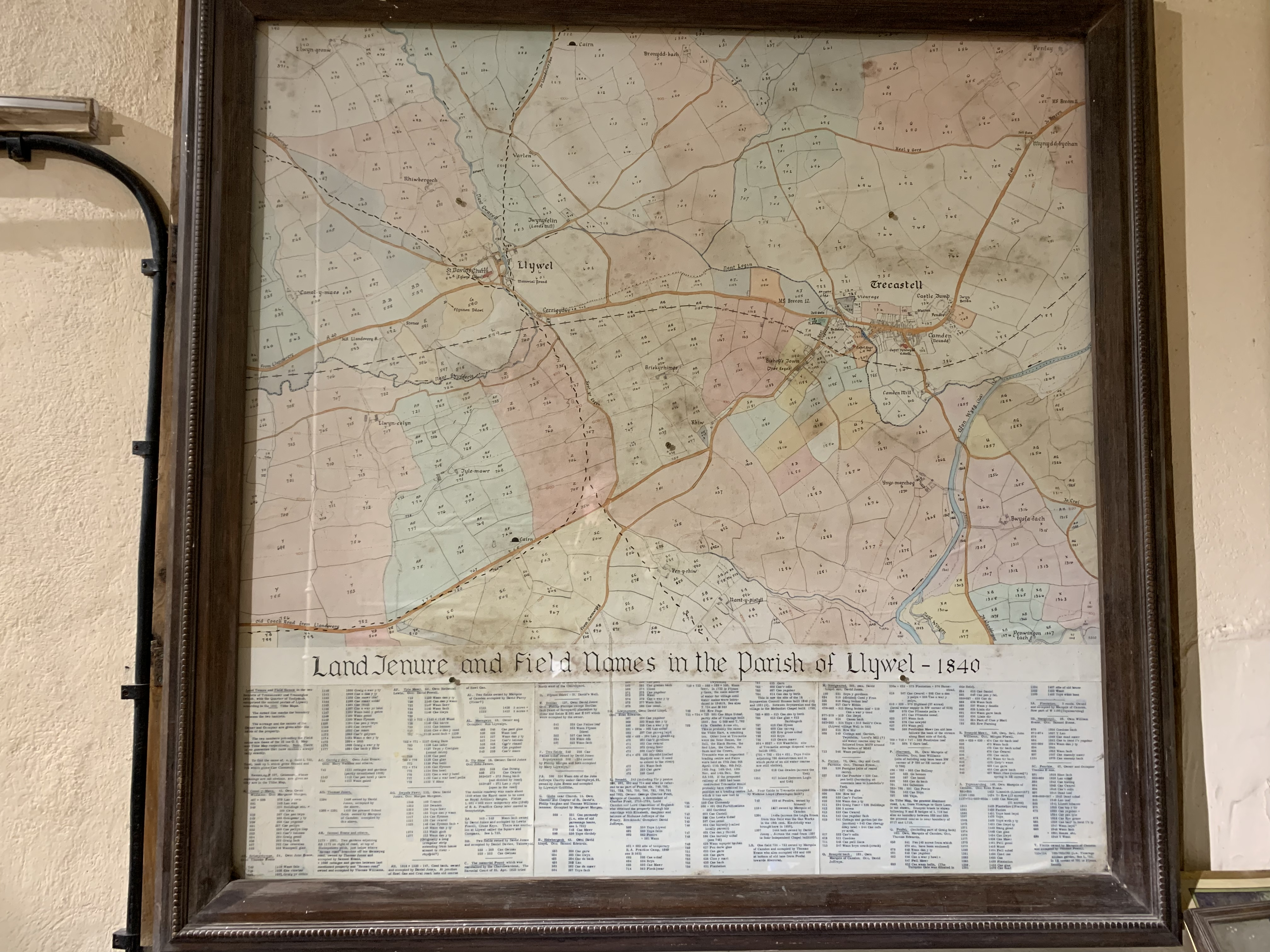 Map from 1840 and displayed in St David's Church, Llywel, Breconshire. Such a map would have been used in calculating and attributing tithes (church taxes).